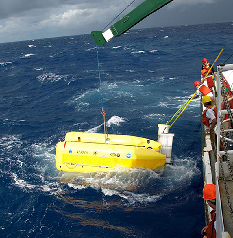 A team recovers the hybrid robotic vehicle Nereus aboard the research vessel Cape Hatteras during a partially NASA-funded expedition to the Mid-Cayman Rise in October 2009. A search for new hydrothermal vent sites along the 110-kilometer-long ridge, the expedition featured the first use of Nereus in "autonomous," or free-swimming, mode. Image credit: Woods Hole Oceanographic Institution.